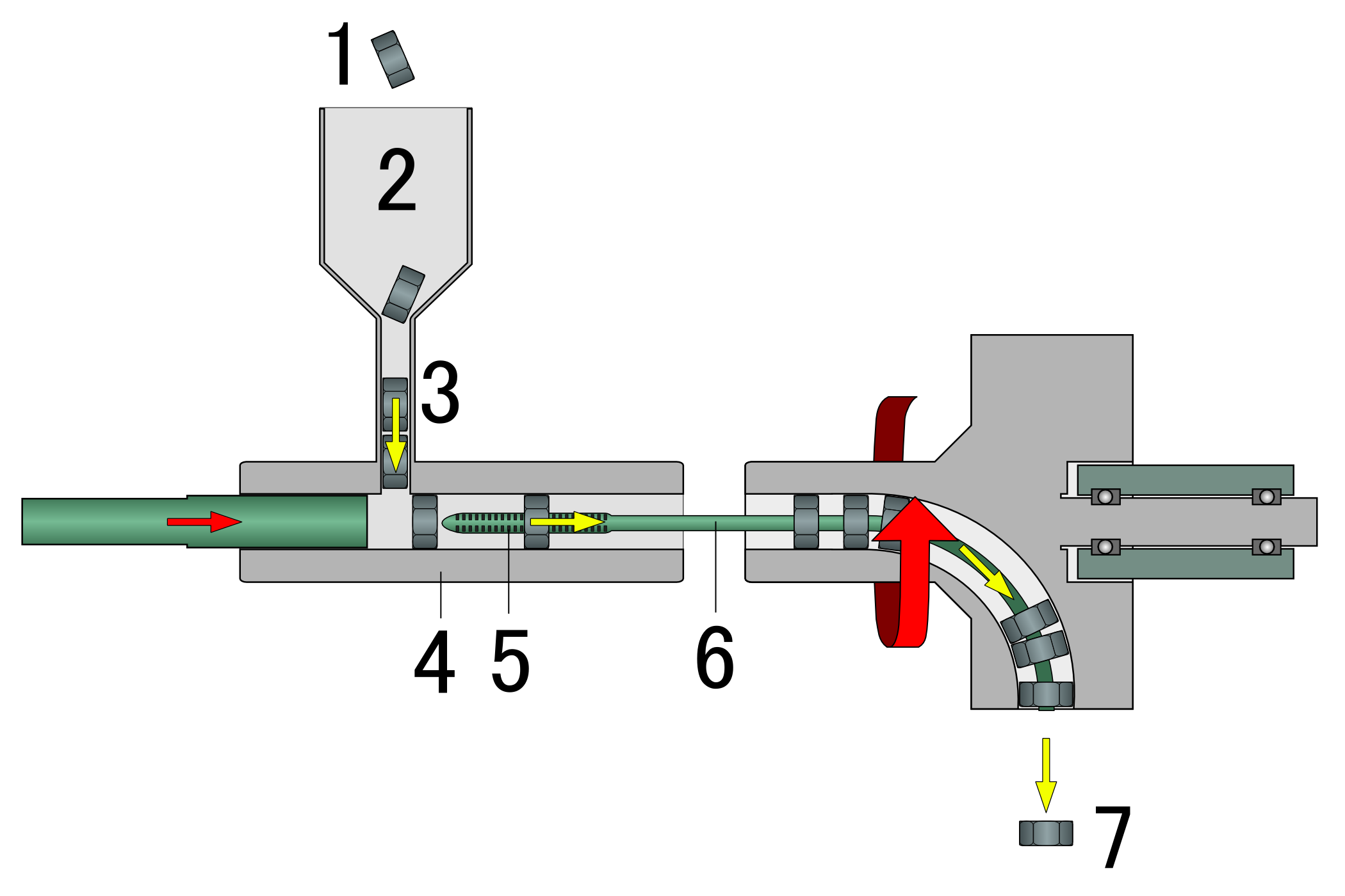 Screw (bolt) 18-n